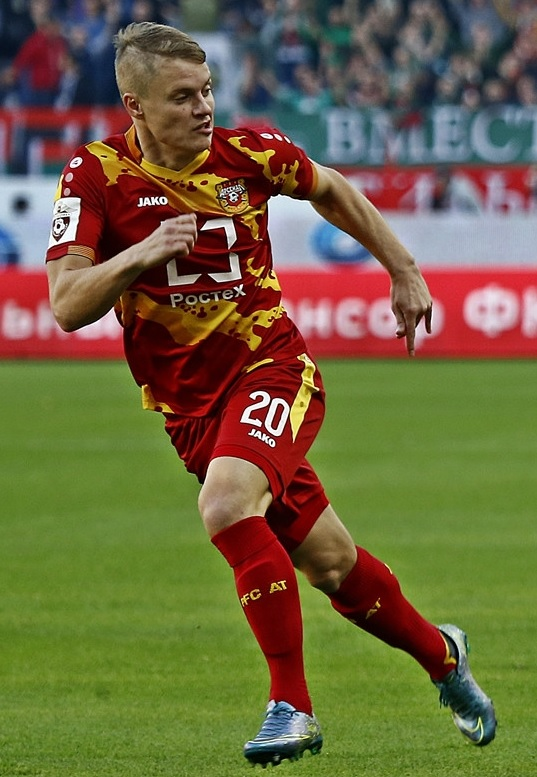 Vadim Steklov with FC Arsenal Tula in a game against FC Lokomotiv Moscow.